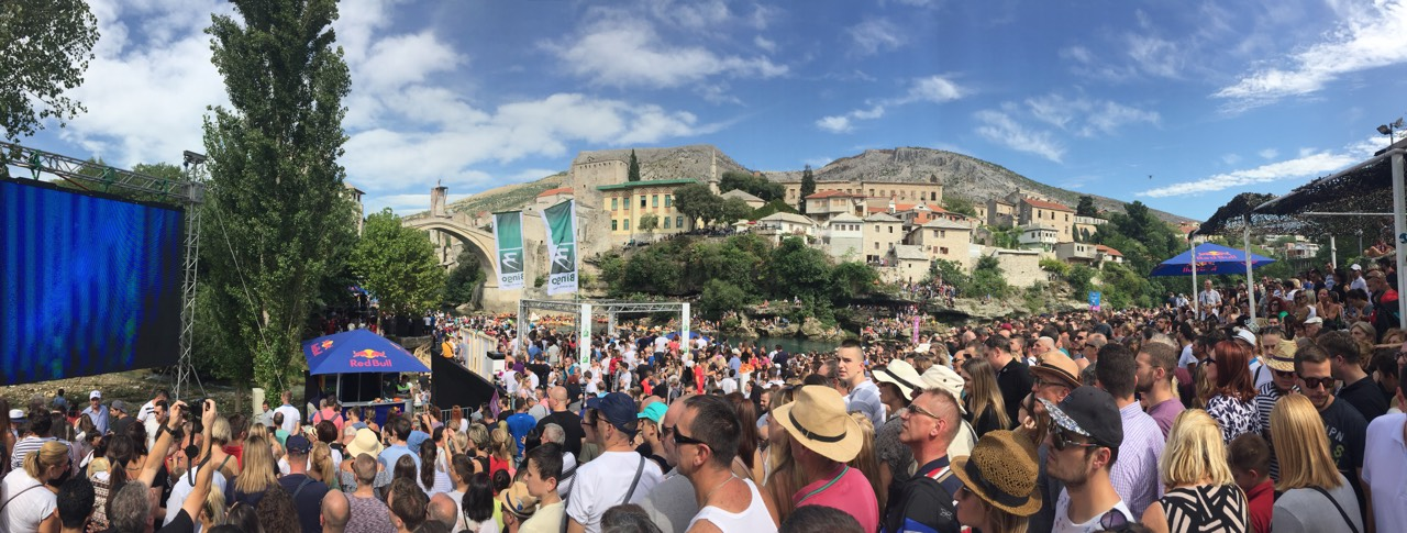 Red Bull Cliff-diving World Series - Mostar 2017